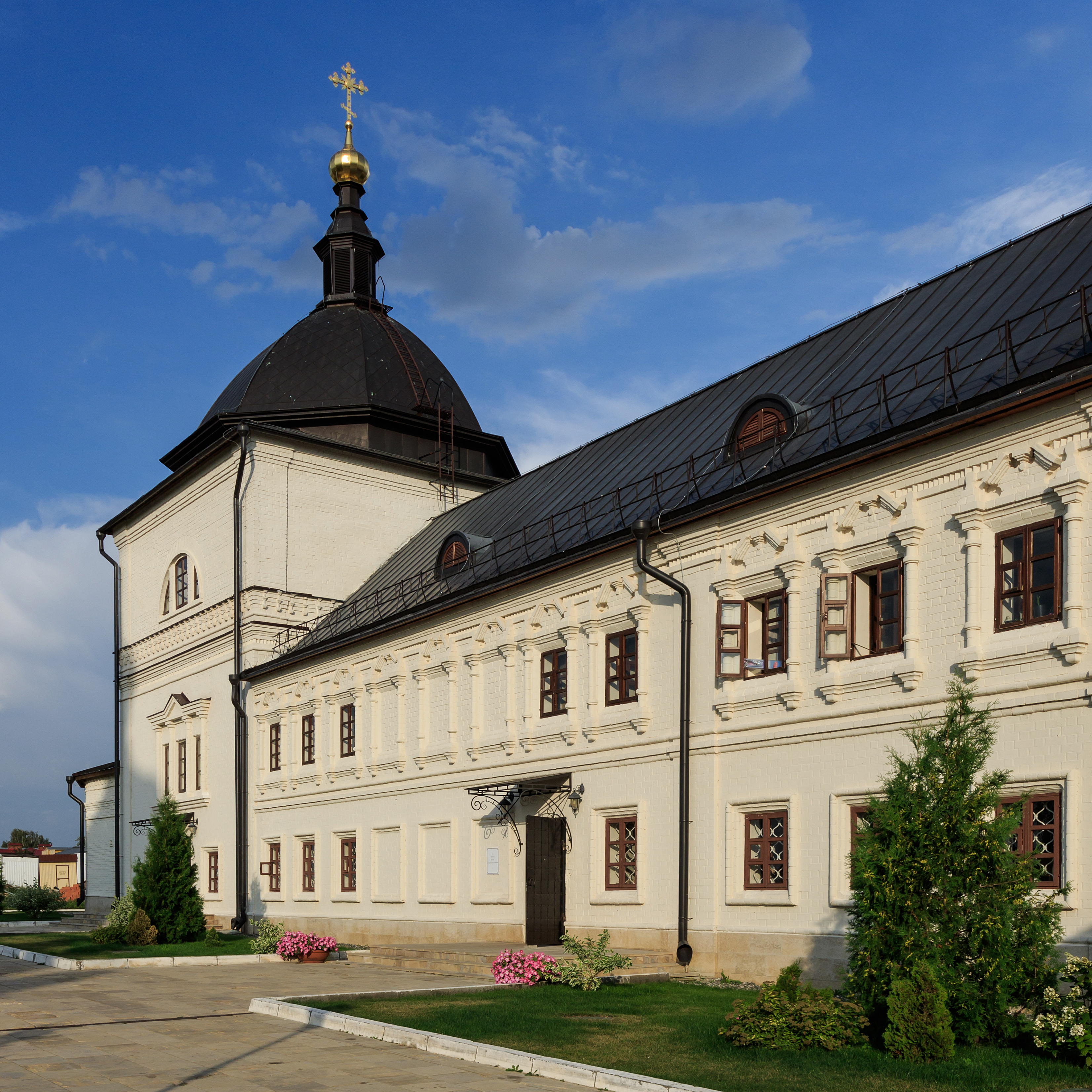 Monks' residence of Uspensky Monastery. Sviyazhsk, Tatarstan, Russia.